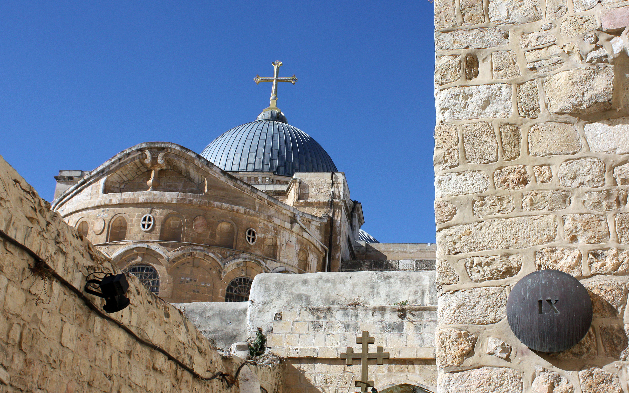 Dome exterior view of Church of the Holy Sepulchre